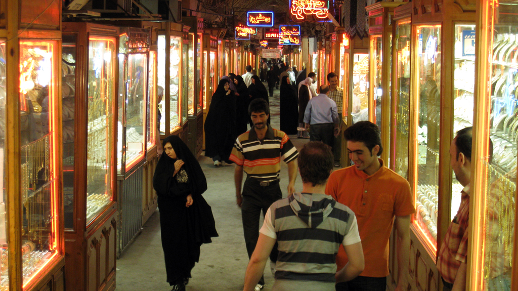 Bazaar of gold, Iran, Tabriz